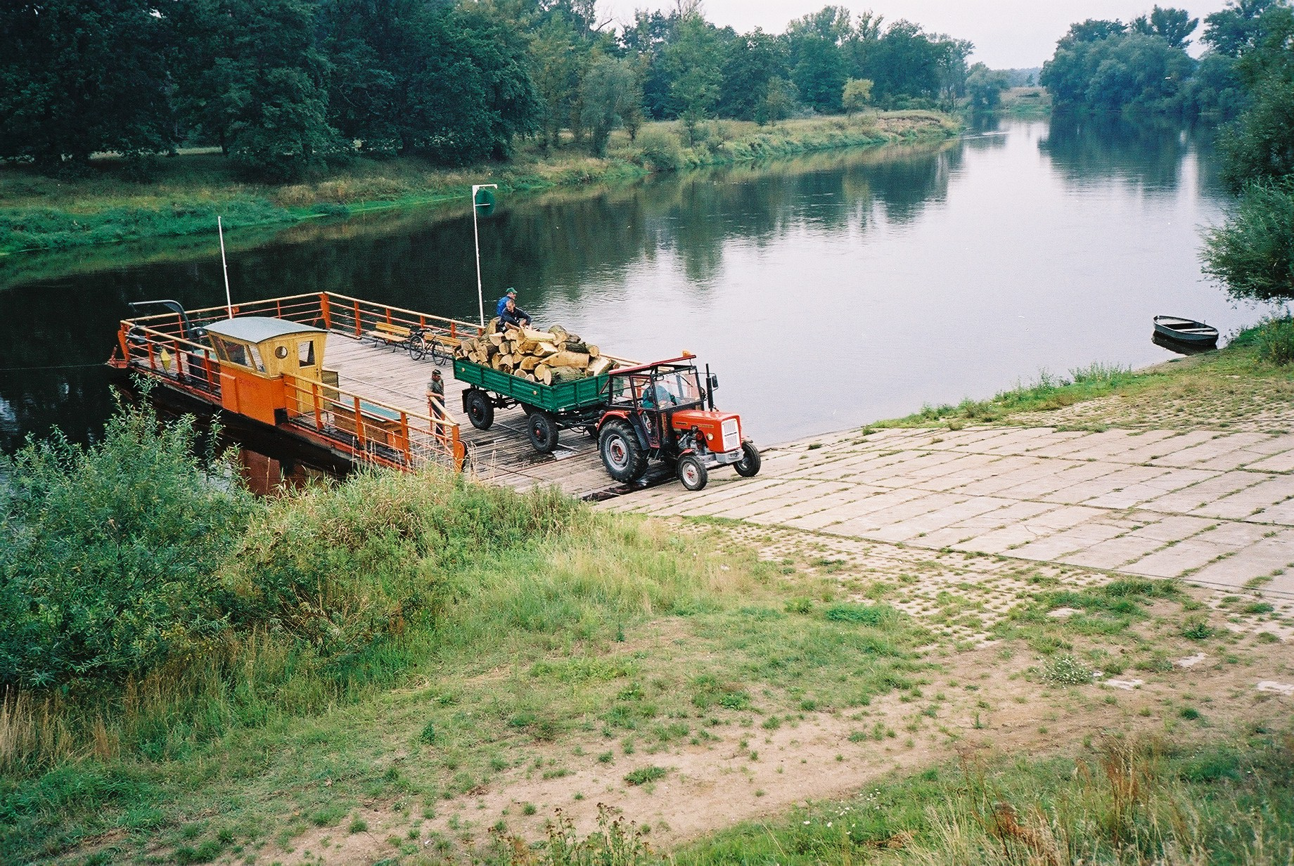 Ferry in Czeszewo (Poland - Warta river) Useful for tourists and foresters. Open from spring to autumn